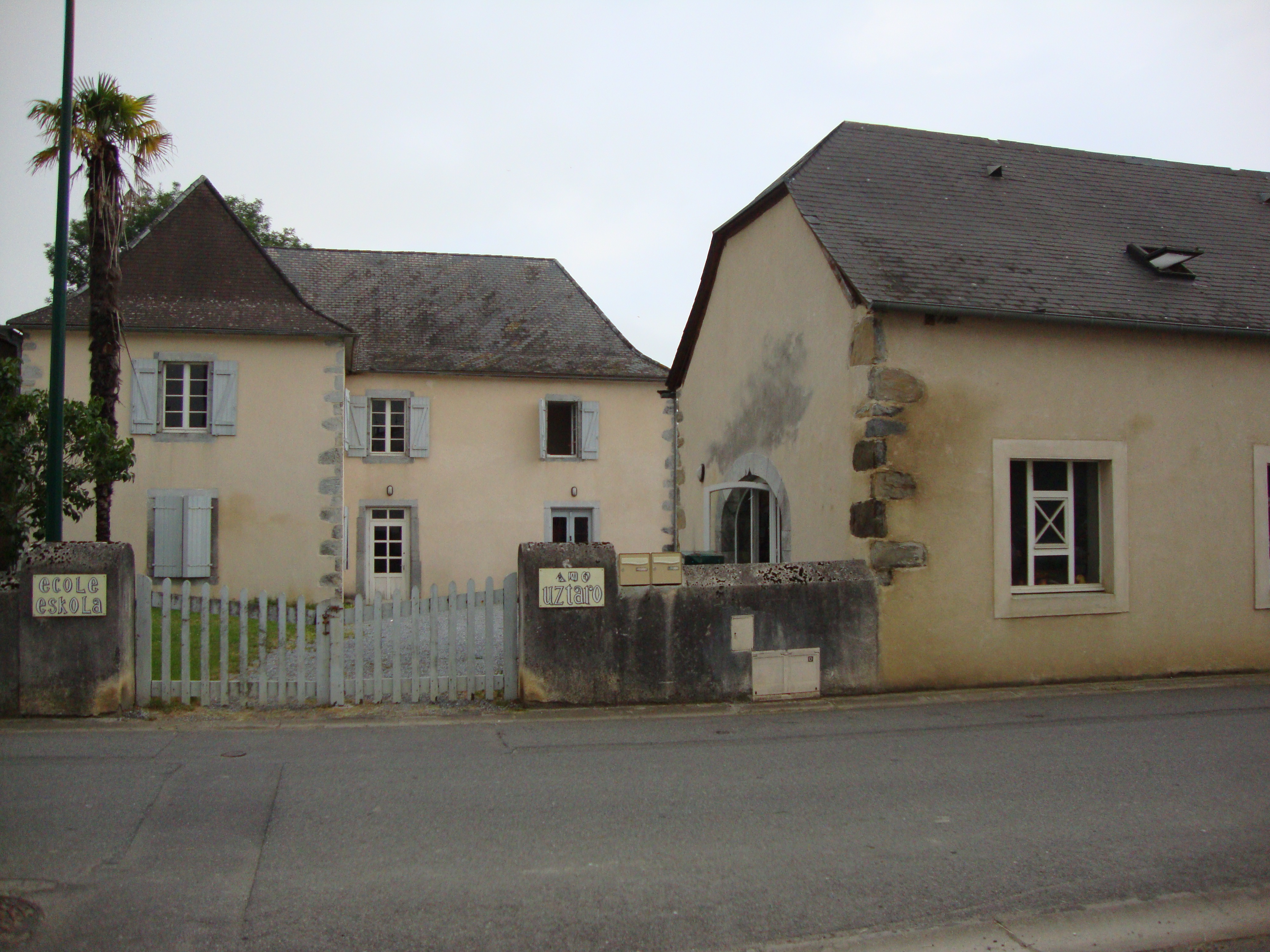 Menditte (Pyr-Atl, Fr) school